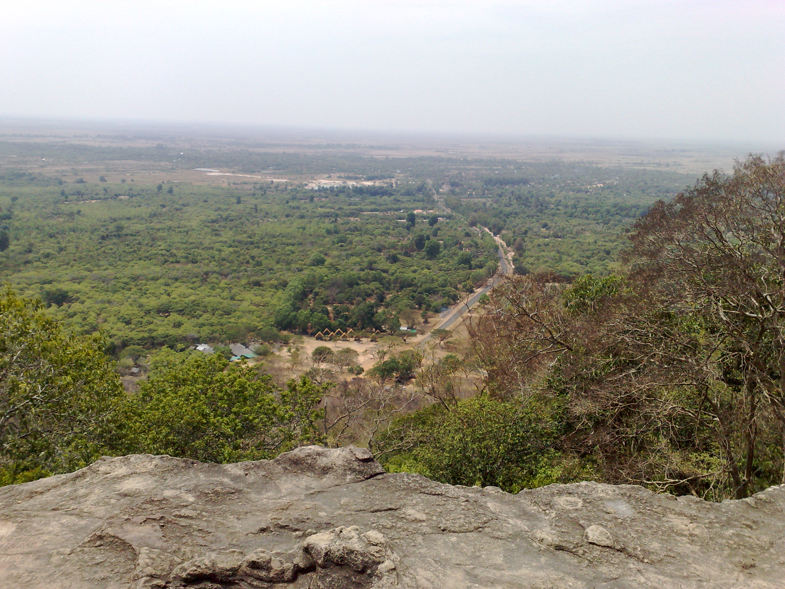 View from a cliff from Phnom Santuk, Cambodia, 5 March 2011